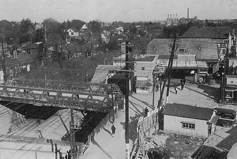 Meguro Station in Pre-war Showa era